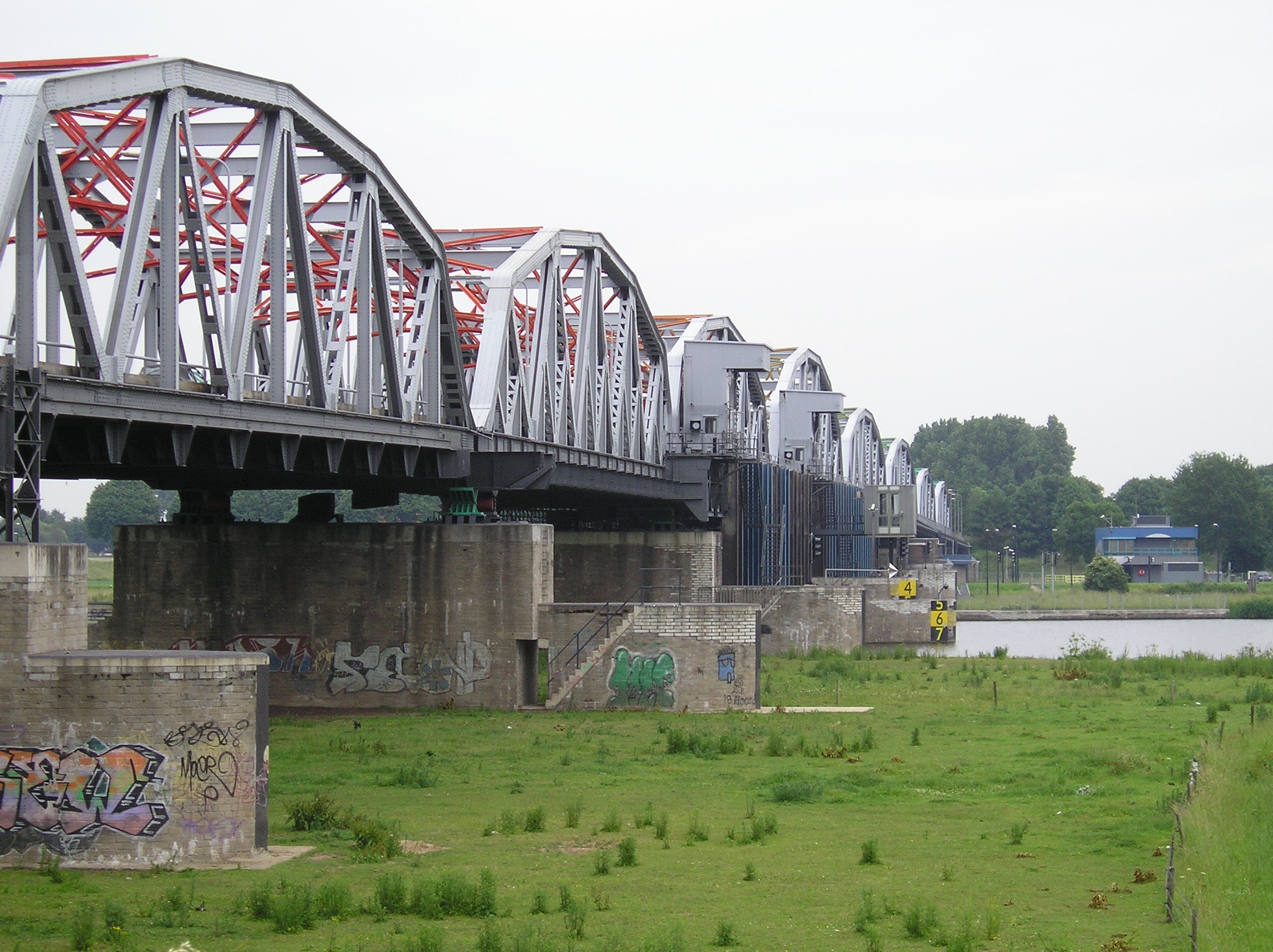 Canal lock/sluice gates complex under bridge Grave, The Netherlands